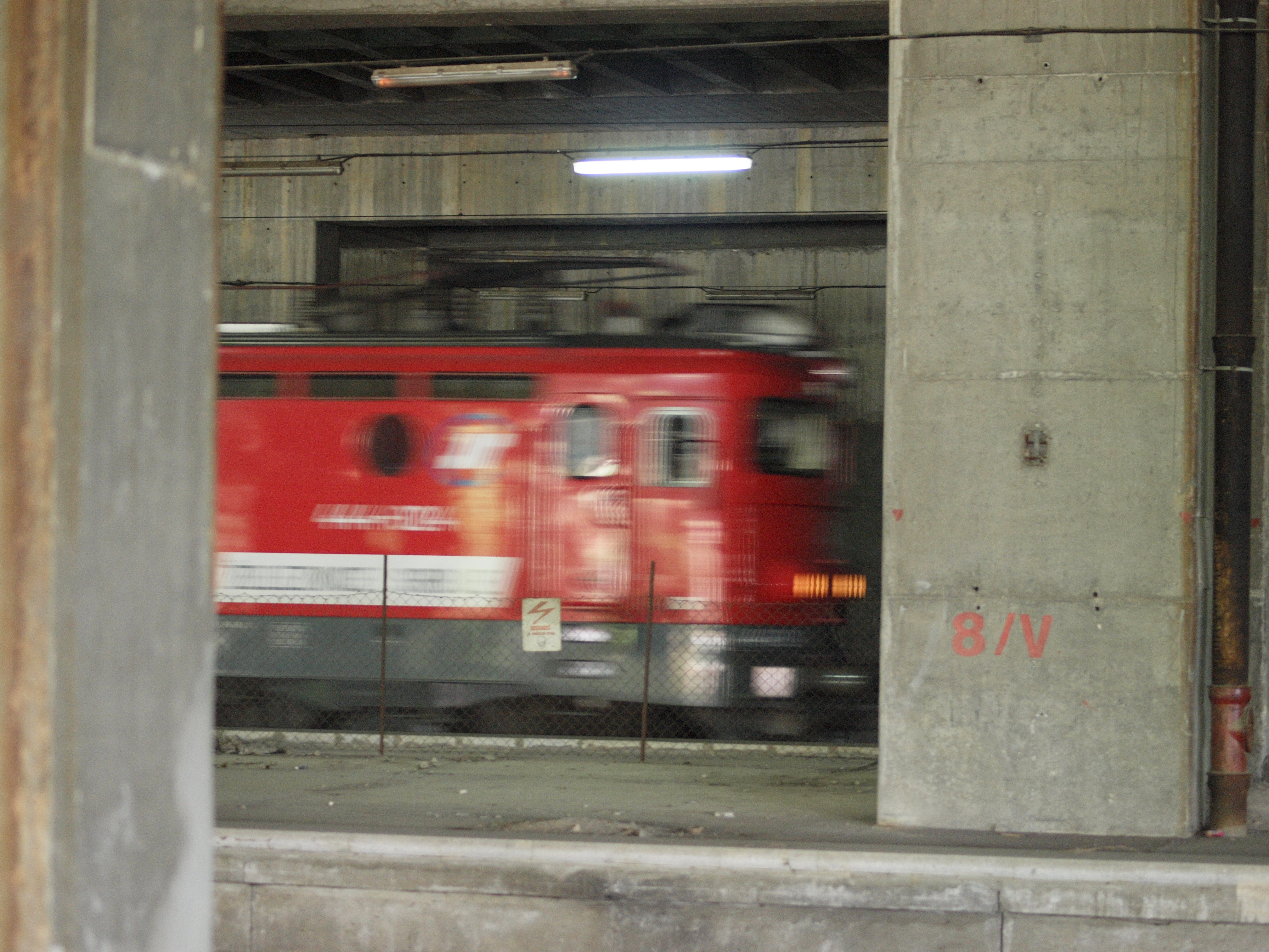 Red train rushing through Prokop